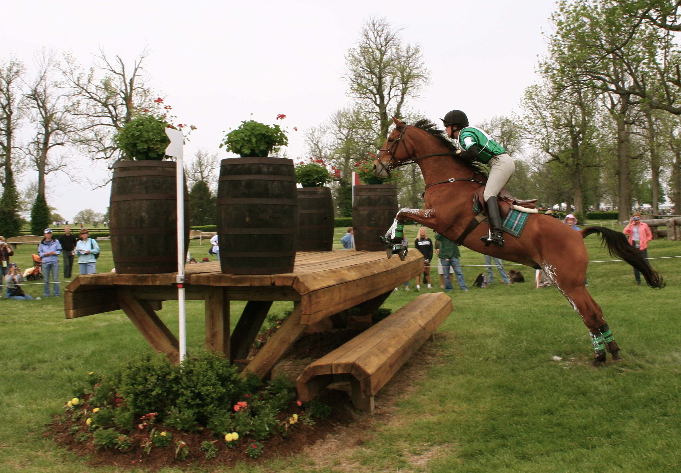 Photo of Sara Mittleider and El Primero at 2006 Rolex Kentucky Three Day Event negotiating a rather wide "pic-nic table" obstacle.